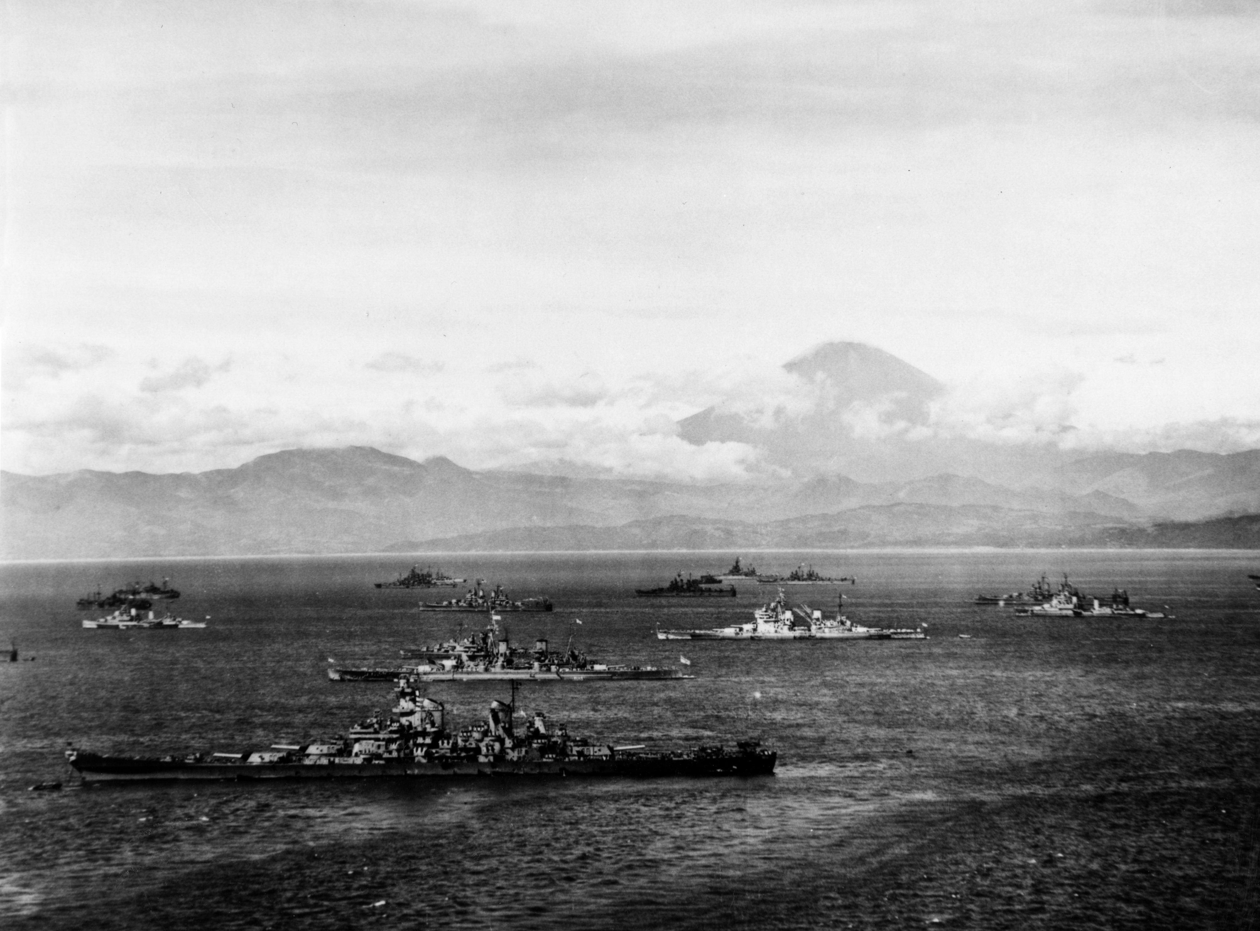 Warships of the U.S. Third Fleet and the British Pacific Fleet in Sagami Wan, 28 August 1945, preparing for the the formal Japanese surrender a few days later. Mount Fuji is in the background. Nearest ship is USS Missouri (BB-63), flying Admiral William F. Halsey's four-star flag. The British battleship HMS Duke of York is just beyond her, with HMS King George V further in. USS Colorado (BB-45) is in the far center distance. Also present are U.S. and British cruisers and U.S. destroyers.